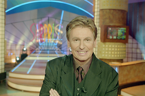 Henny Huisman